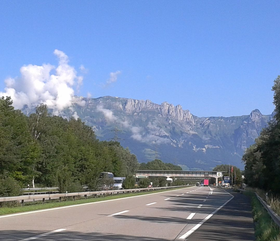 Rest area Rheintal (Werdenberg) in Swiss